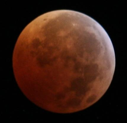 Lunar eclipse early Monday morning in Orlando, FL.